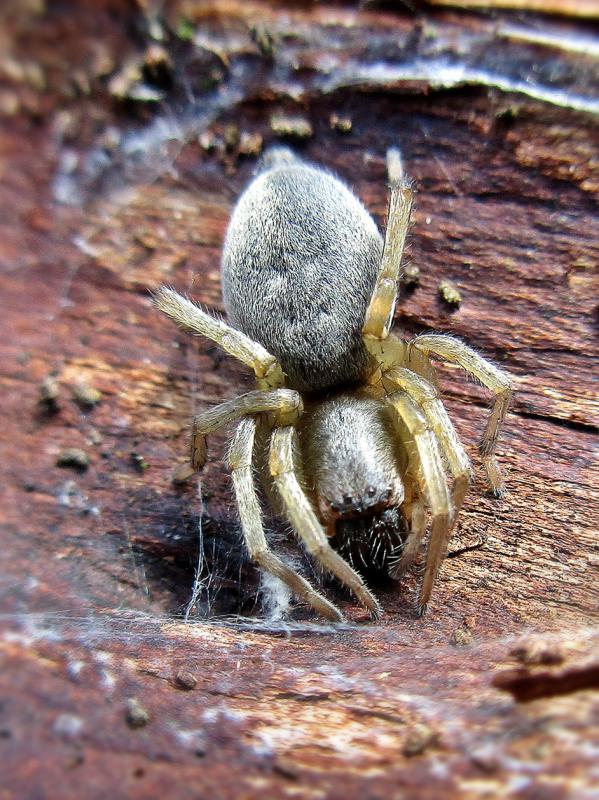 Clubiona spec. (Araneae sp.), Arnhem, the Netherlands